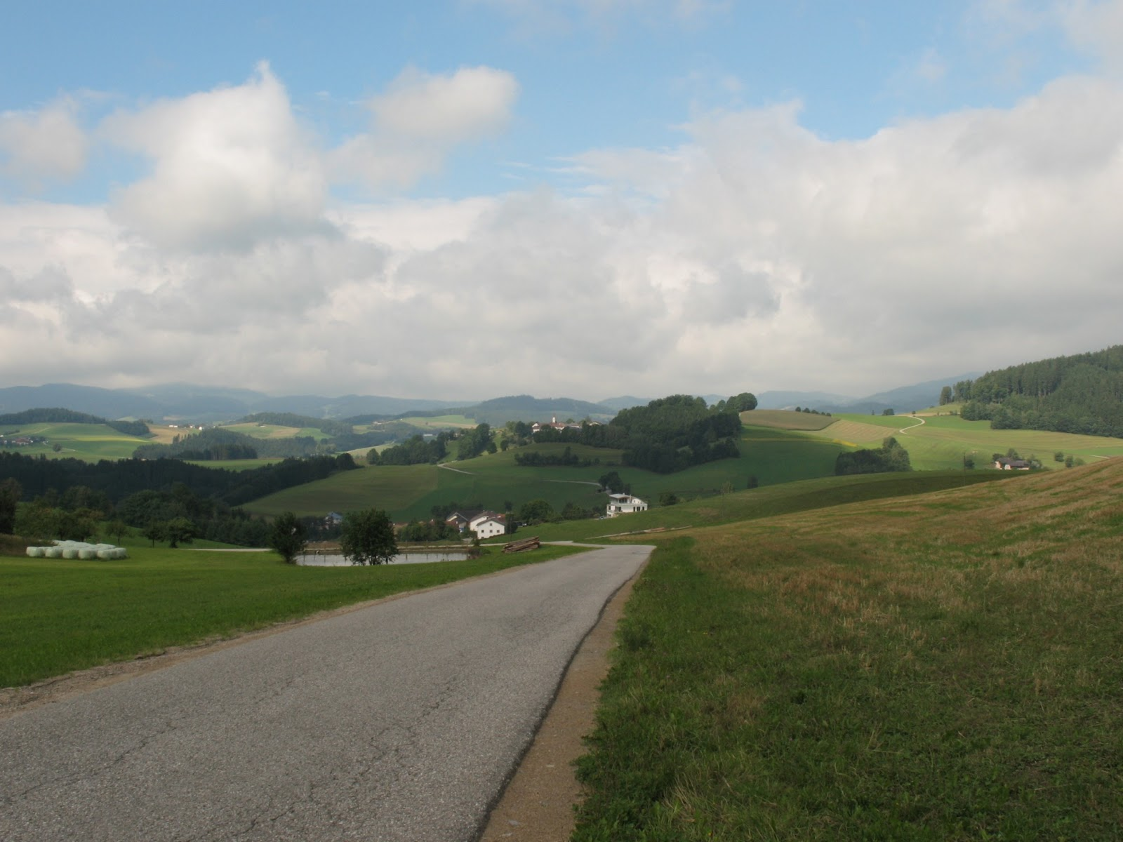 Mühlviertel scenery, Rohrbach district, Austria.